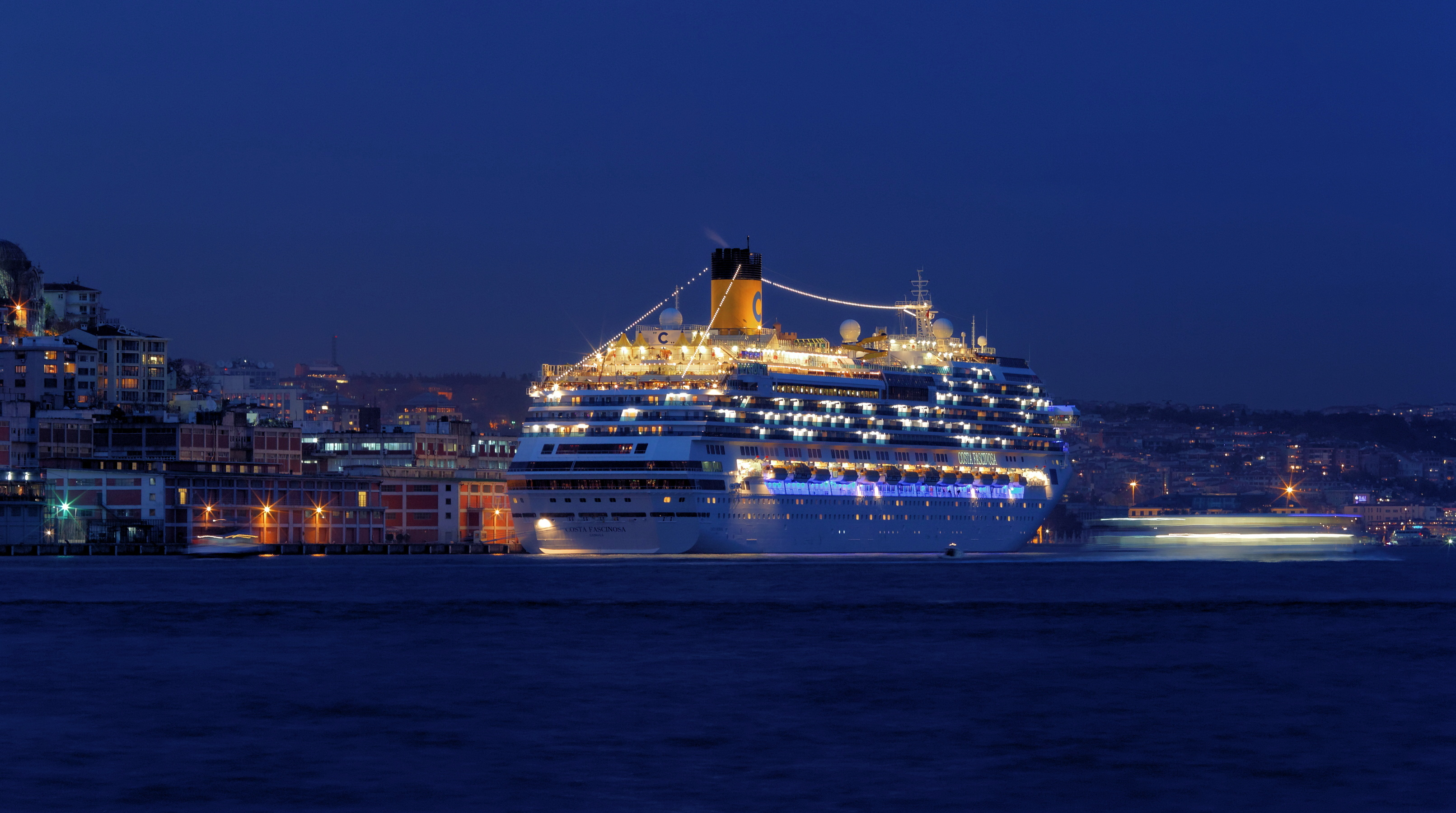 Istanbul. Bosphorus. Cruise ship "Costa Fascinosa"